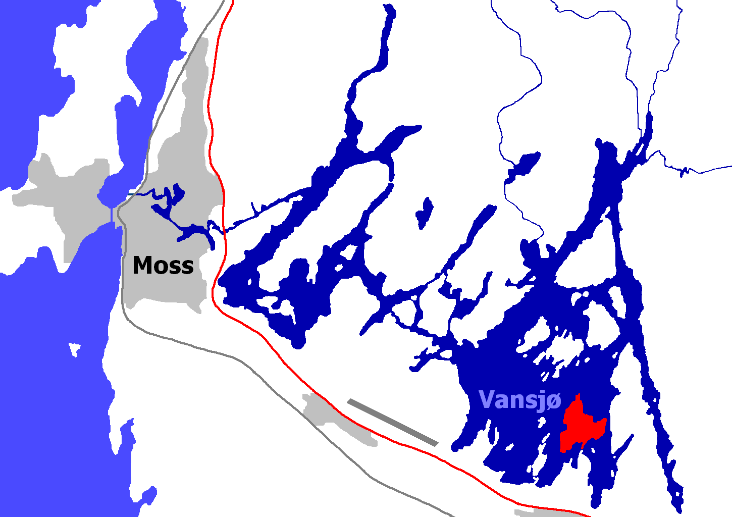 Map of the lake Vansjø. The island of Oksenøya in red. Created by JohnM 21:33, 20 May 2006 (UTC)